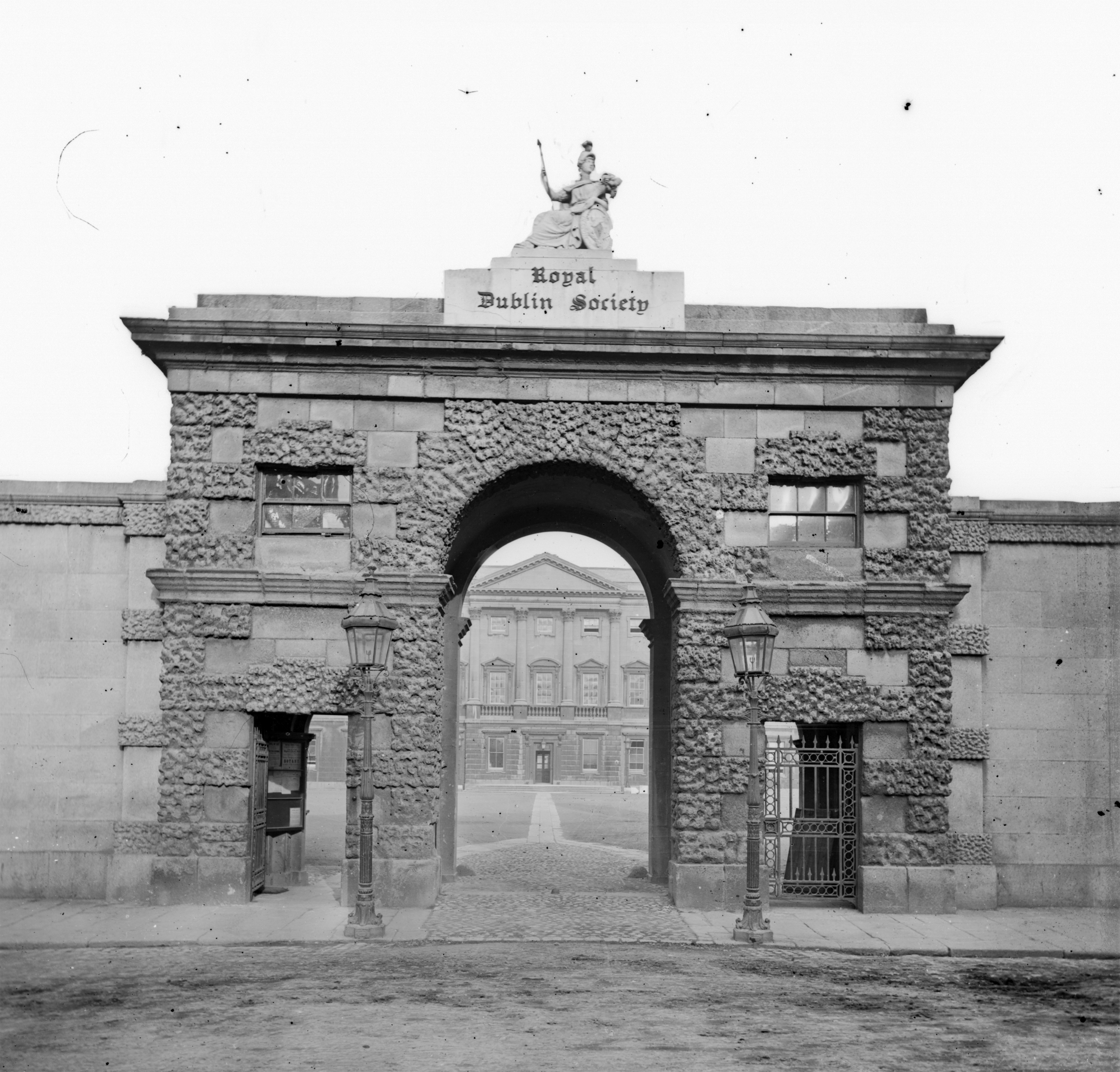 This was the entrance arch to Leinster House (next door to Library Towers) back in the days when it was home to the Royal Dublin Society, whose original collections formed the basis of ours here at the National Library of Ireland. It looks quite imposing, and it's lovely to see the notices for presumably forthcoming lectures, etc. - a bit blurry, but one definitely says BOTANY. I had assumed the figure of Minerva had been relocated to the "new" RDS in Ballsbridge, but she's not on any of the buildings there that I could see. So, where is Minerva now? Date: 1863-1880 NLI Ref.: STP_1254